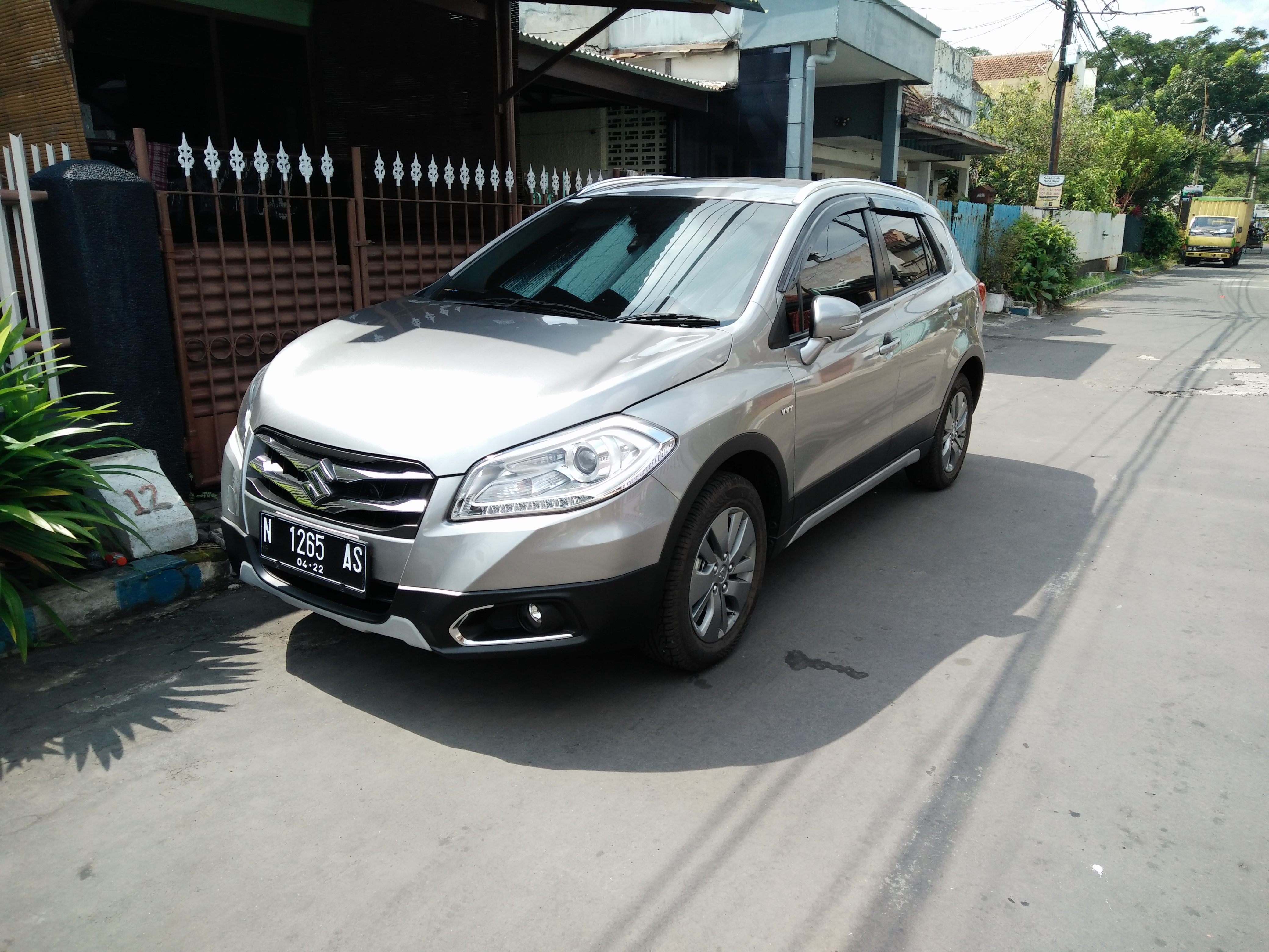 2017 Suzuki SX4 S-Cross photographed in Malang, East Java, Indonesia.